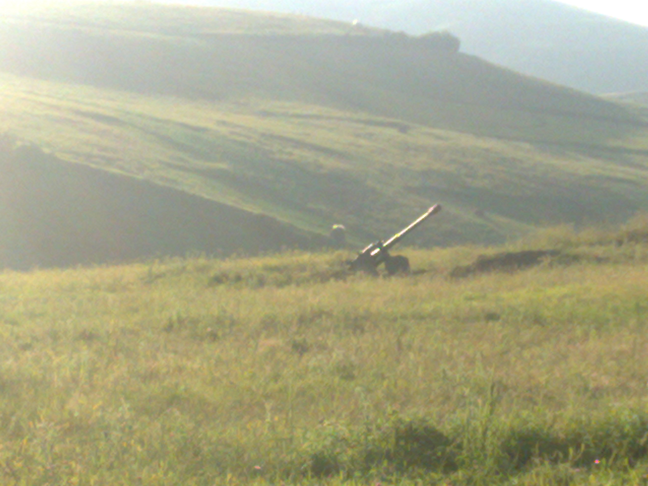 Armneian artillery near Armenian-azerbaijani border near Norashen village of Tavush province of Armenia.